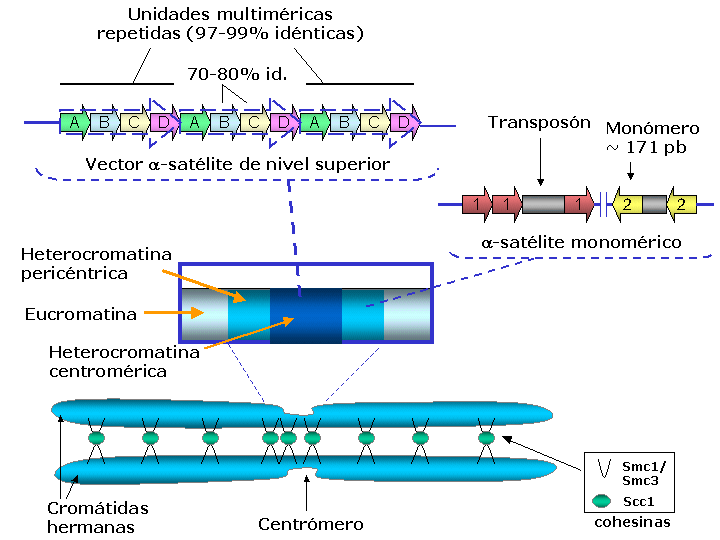 Scheme showing the organization of DNA satellite in human centromeres.